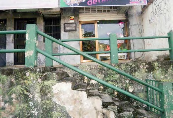 Headquarters of the first rectory of the Universidad Rómulo Gallegos founded in 1979, photo of the current state of the same, photo dating from 2019.